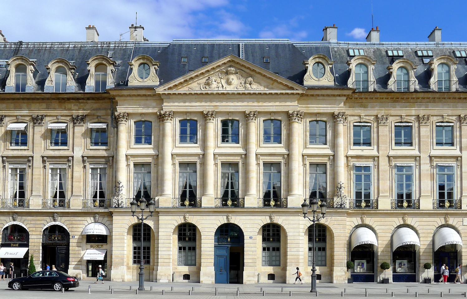 Vendôme place - Paris